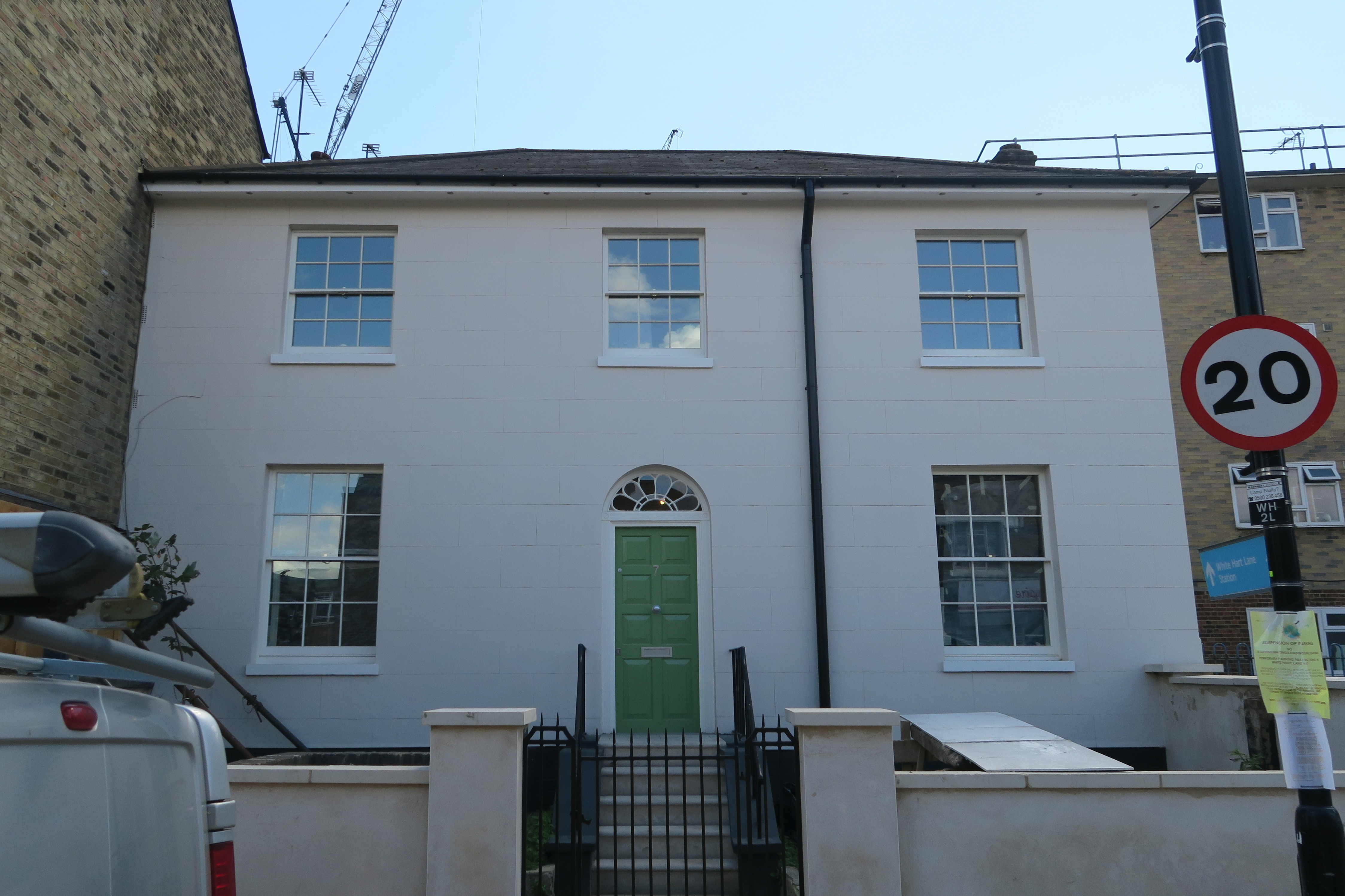 White Cottage on No. 7 White Hart Lane was the home of Robert Buckle, one of the founders of Tottenham Hotspur FC, and its address was the first official recorded address of Tottenham Hotspur FC.